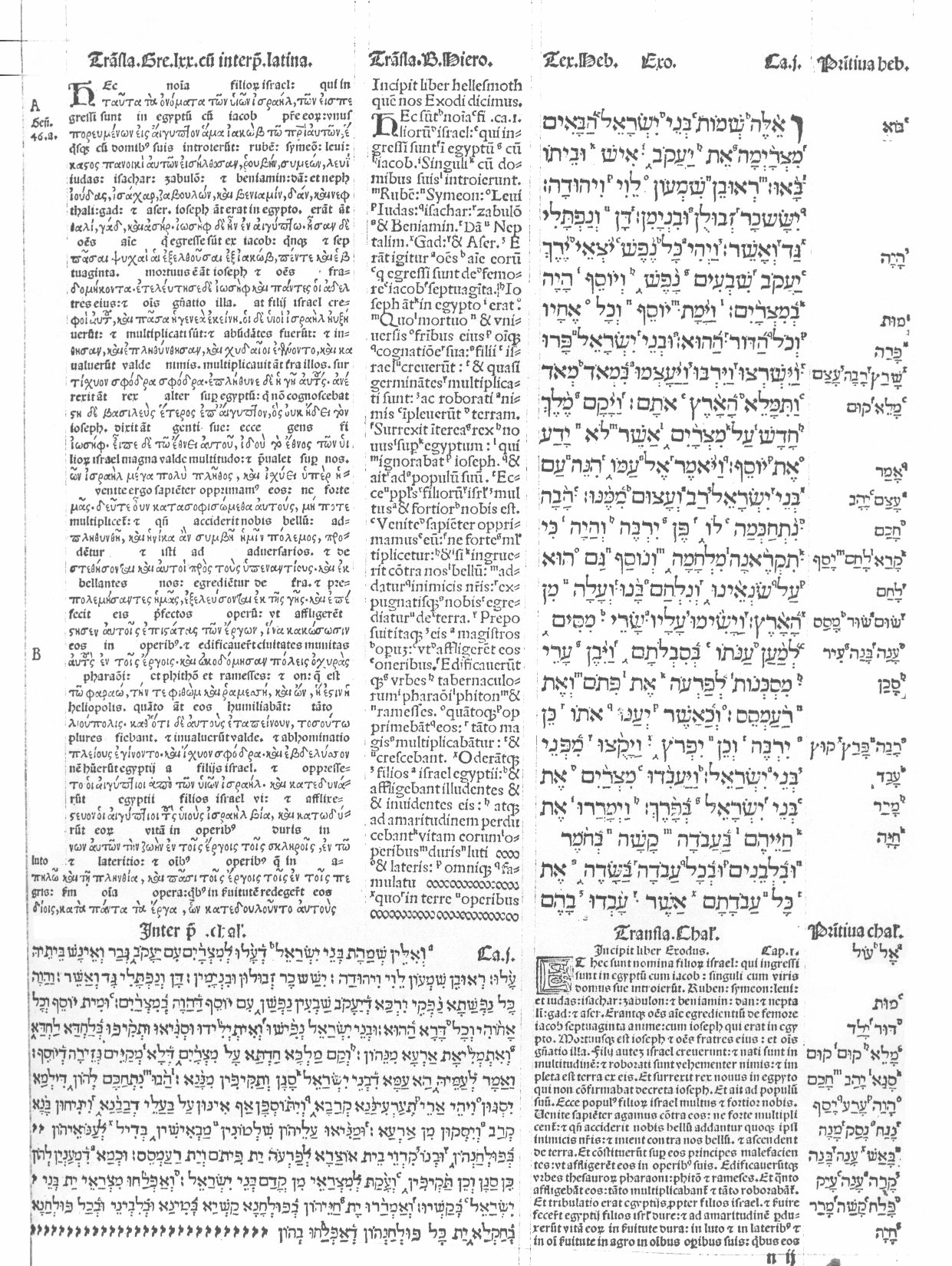 The internal structure of Cardinal Cisneros' Complutensian Polyglot Bible, 16th century. This image shows the first page of the book of Exodus.